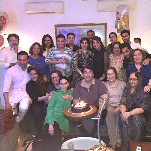 This is a family photo of Kapoor family